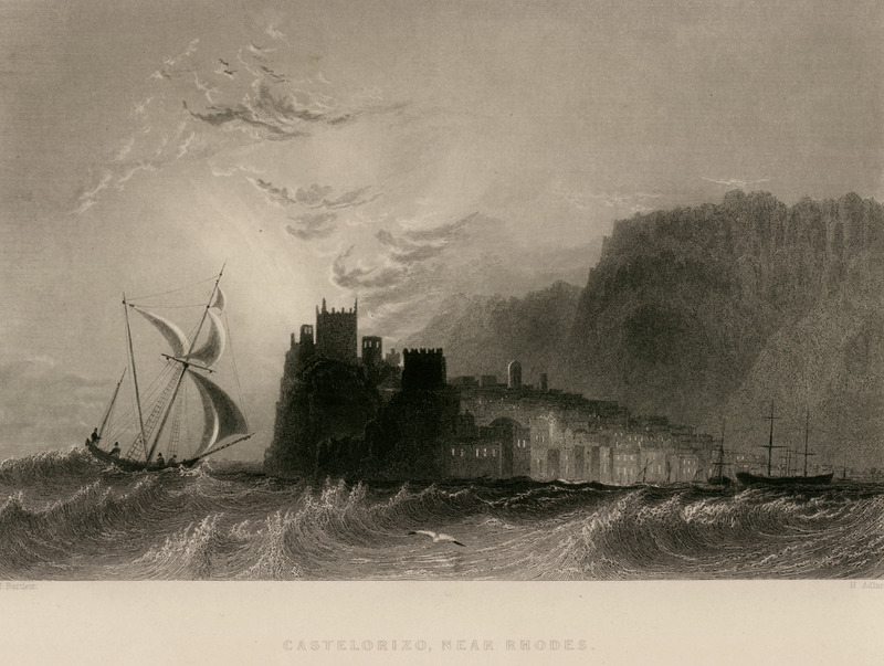 John Carne. Syria, The Holy Land, Asia Minor, &c. Illustrated. In a series of views, drawn from nature by W.H. Bartlett, William Purser, &c., London, Fisher, Son & Co., 1836-1838.